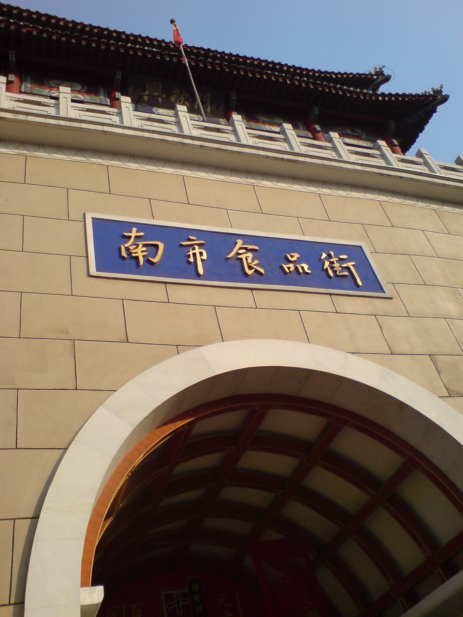 "food street" in Tianjin , China